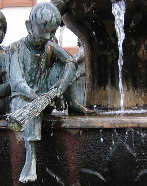 view of Enkenbach, Germany